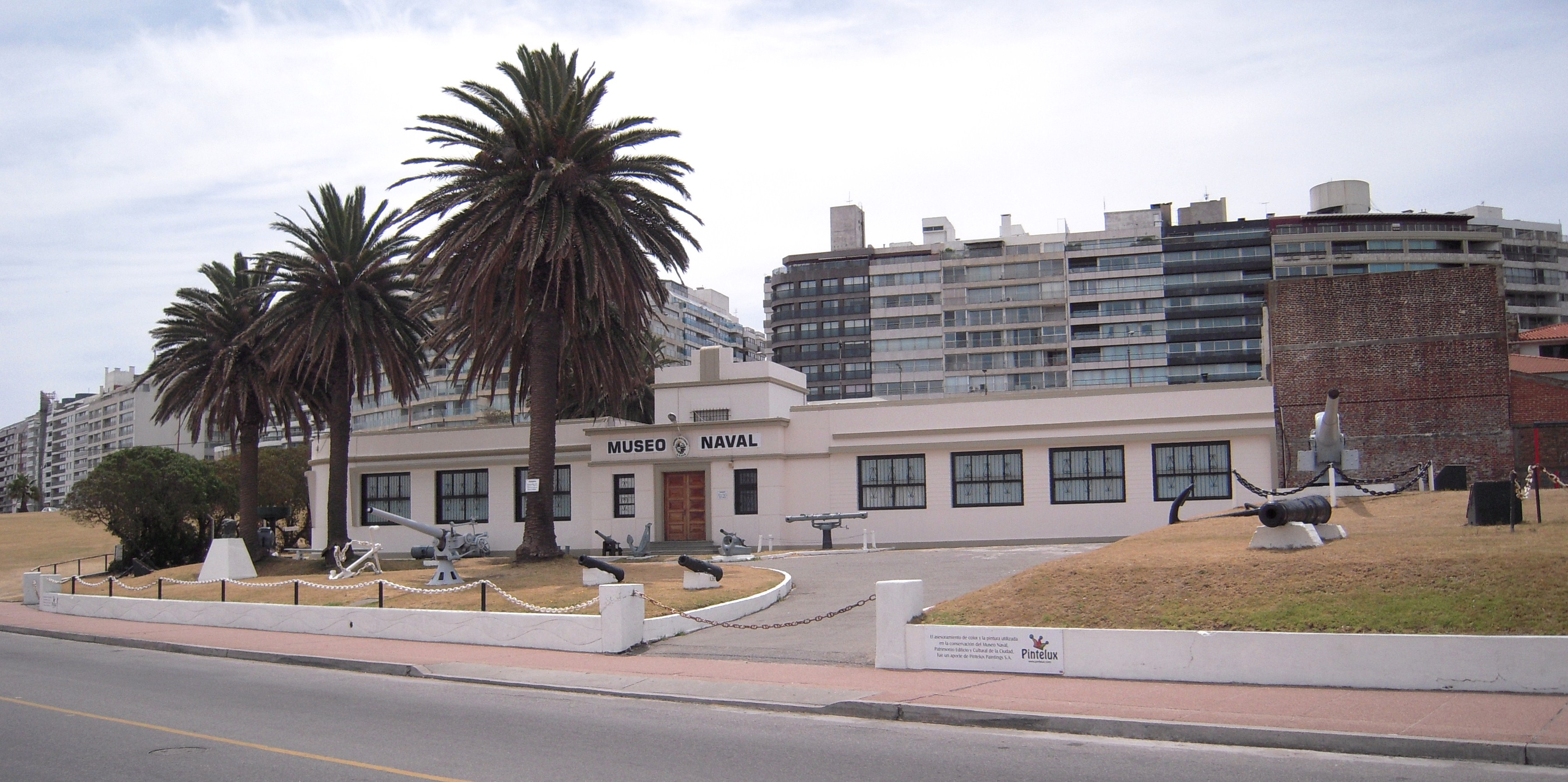 Museo Naval, by Punta del Buceo, Montevideo